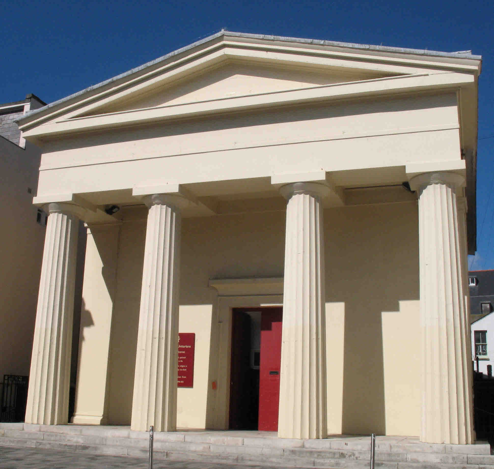 Brighton Unitarian Church - exterior view